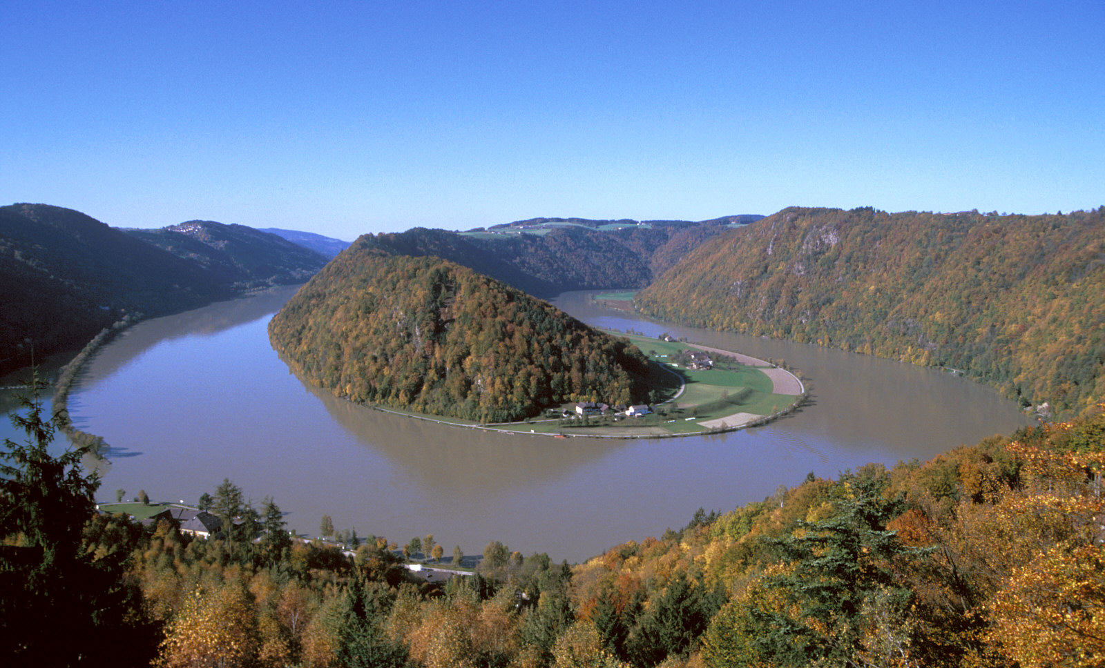 The Schloegen double bend of the Danube river in Upper Austria